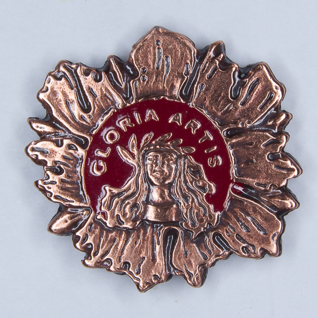 Miniature of Bronze Medal of Gloria Artis (Poland)